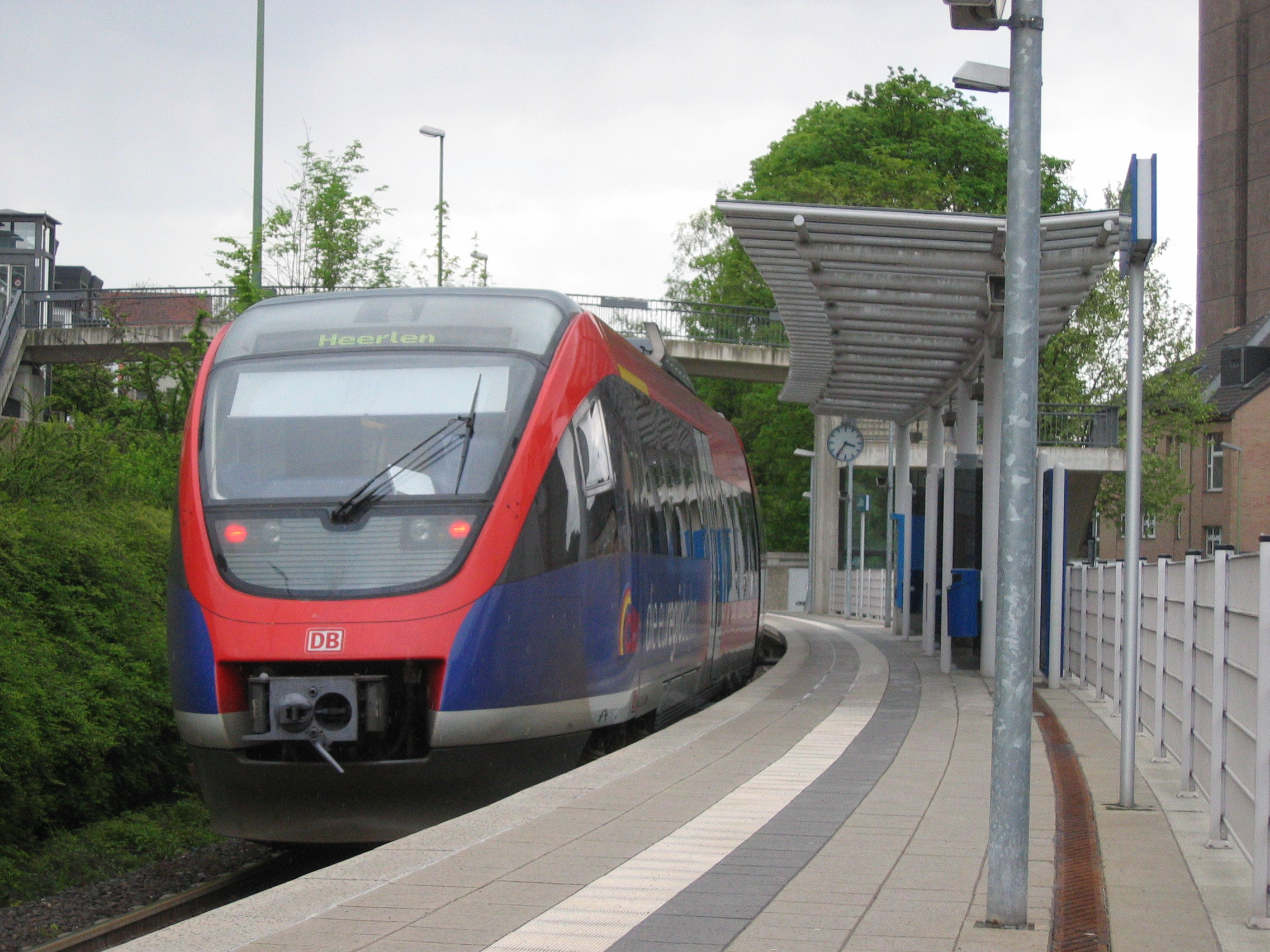 Train from the Euregiobahn on the railway line Stolberg-Eupen at the station Stolberg-Rathaus